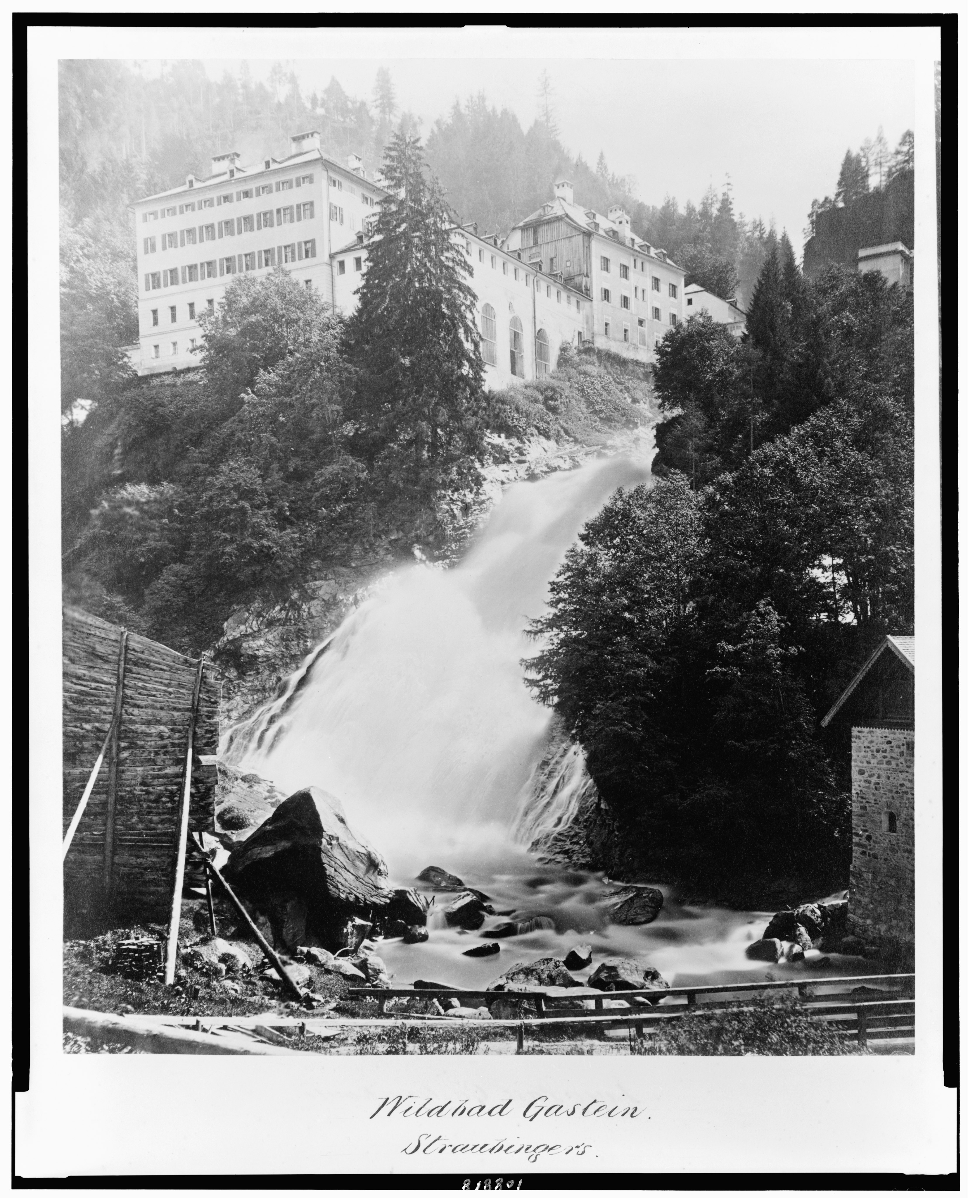 Title: Wildbad Gastein. Straubinger's Abstract/medium: 1 photographic print : albumen.